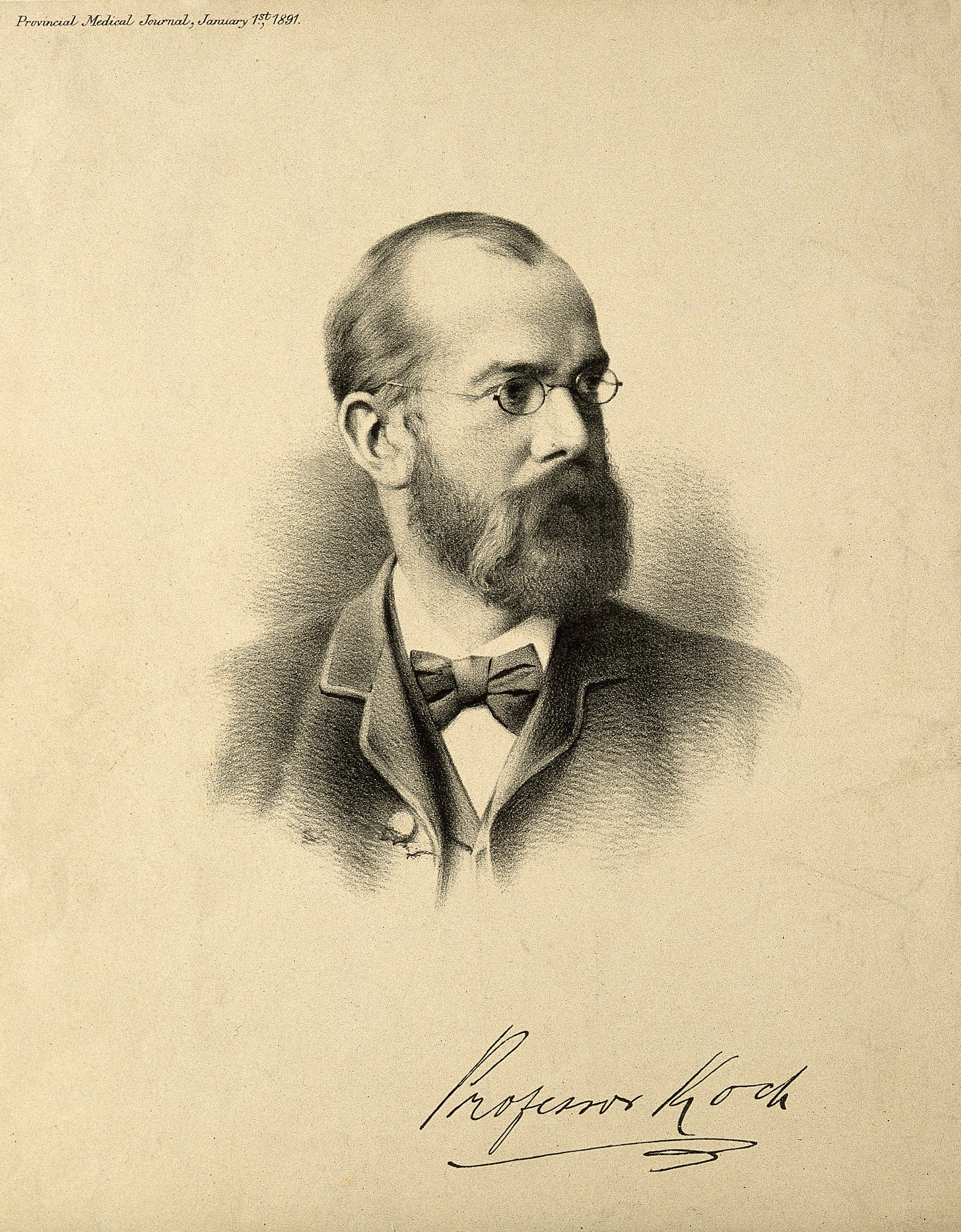 Topic-LCSH: Eyeglasses. Genre/Technique: Portrait prints. Lithographs. Subject name: Koch, Robert, 1843-1910.